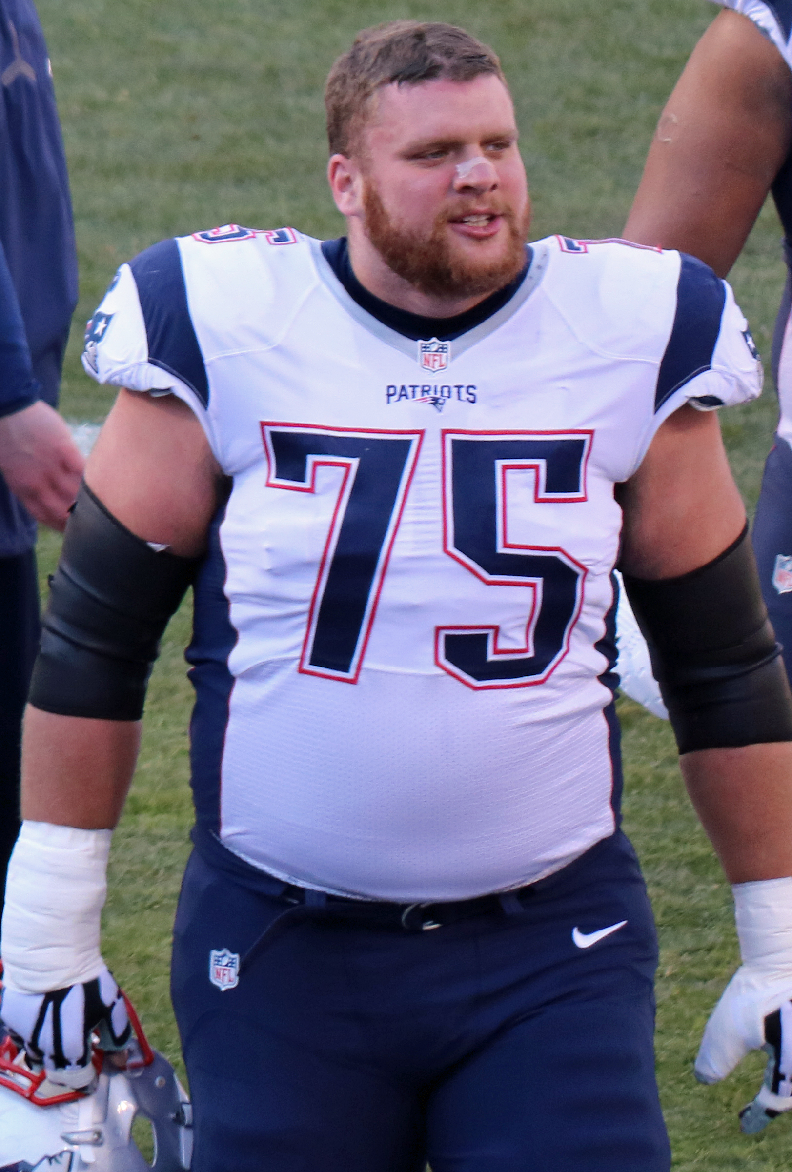 Ted Karras, a player on the National Football League.